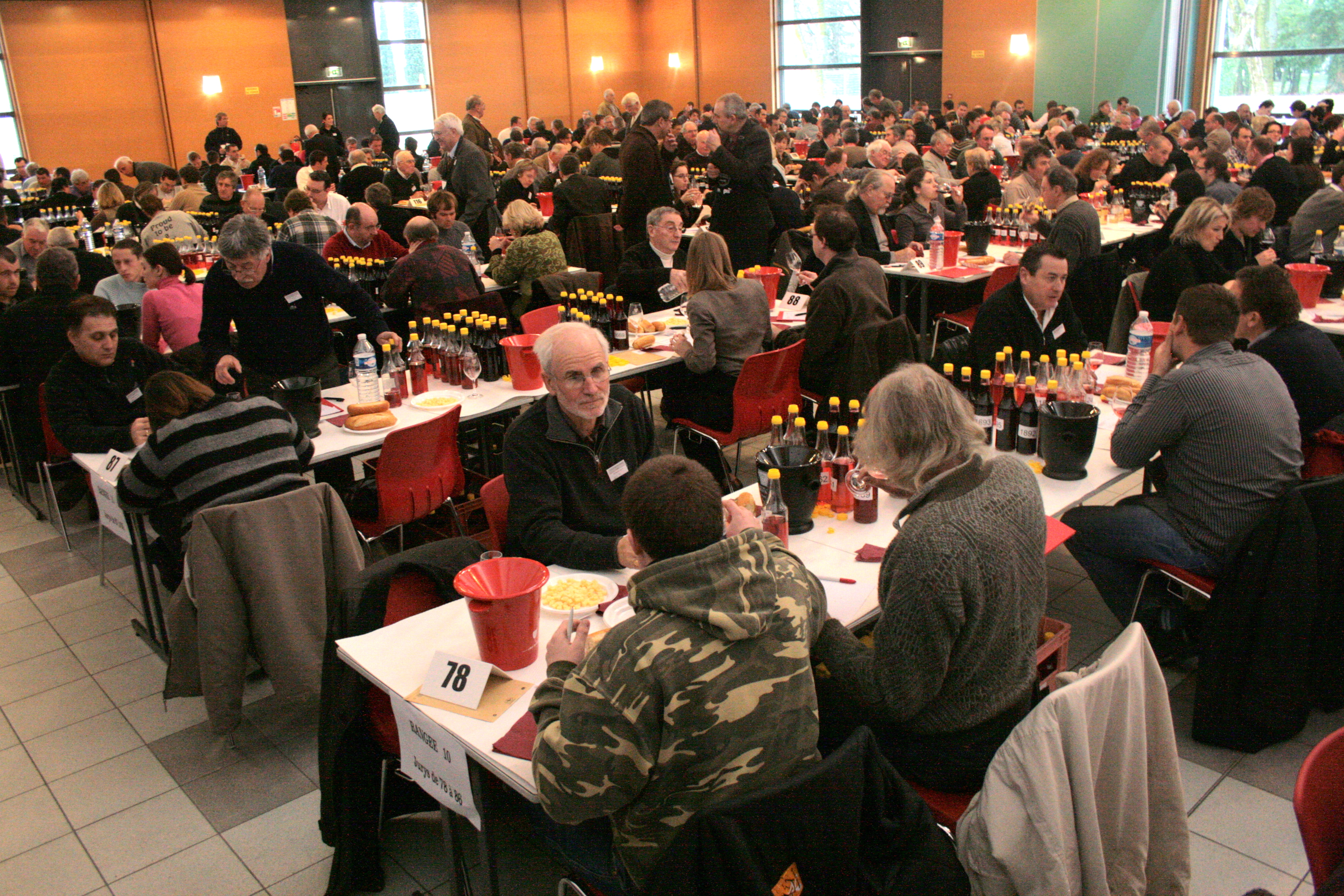 Wines concours Orange Provence & Rhone valley